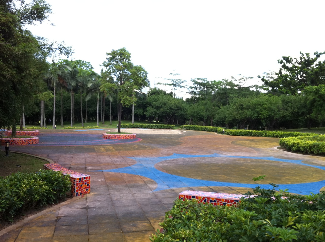 Square A, D Area, Shenzhen Central Park